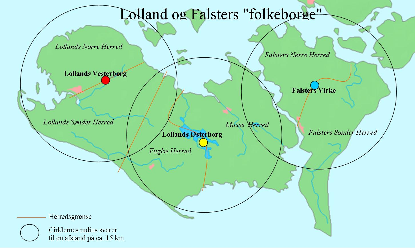 A map of 3 sanctuaries from around 600 AC in Denmark